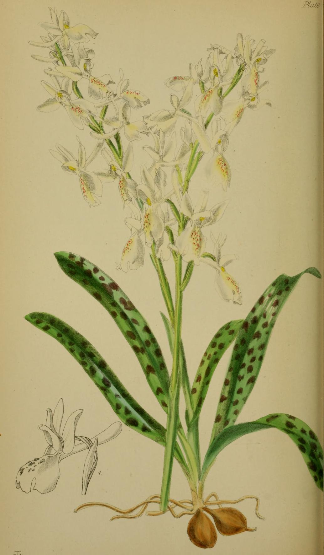 Illustration of Orchis provincialis